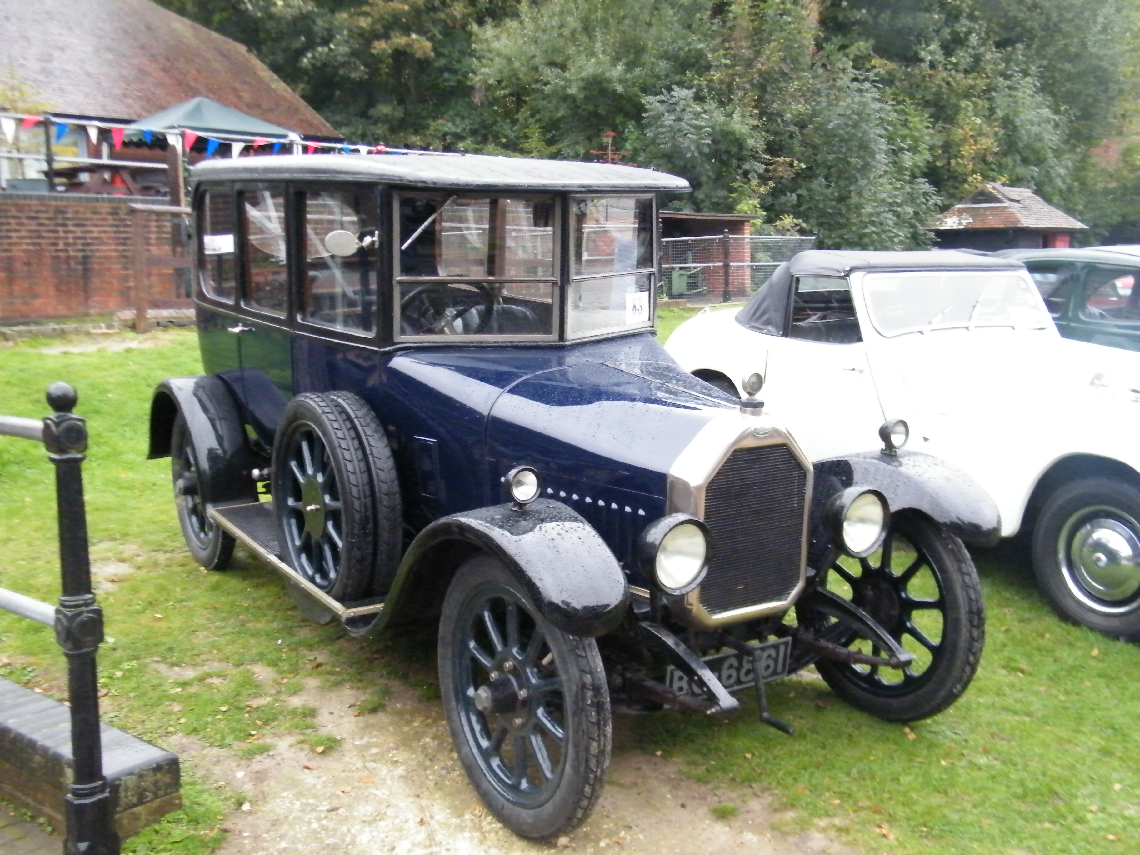 1923 Humber 15.9 h.p. saloon (DVLA) first registered 7 January 1924 2013 - Amberley Autumn Vintage Vehicle Show, Amberley West Sussex